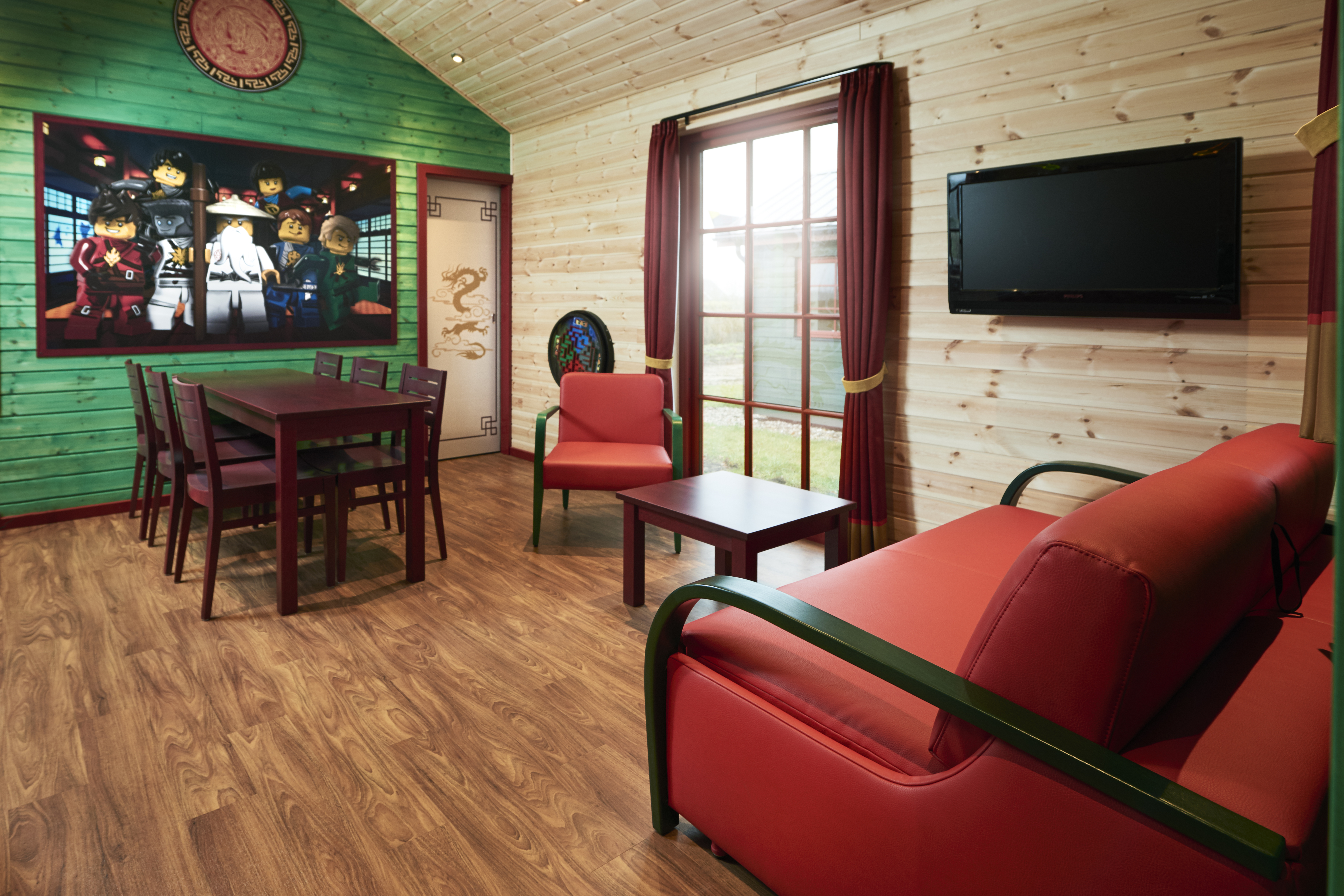 Interior of Lego Ninjago themed cabin in Legoland Holiday Village near the amusement park Legoland Billund Resort in Denmark.